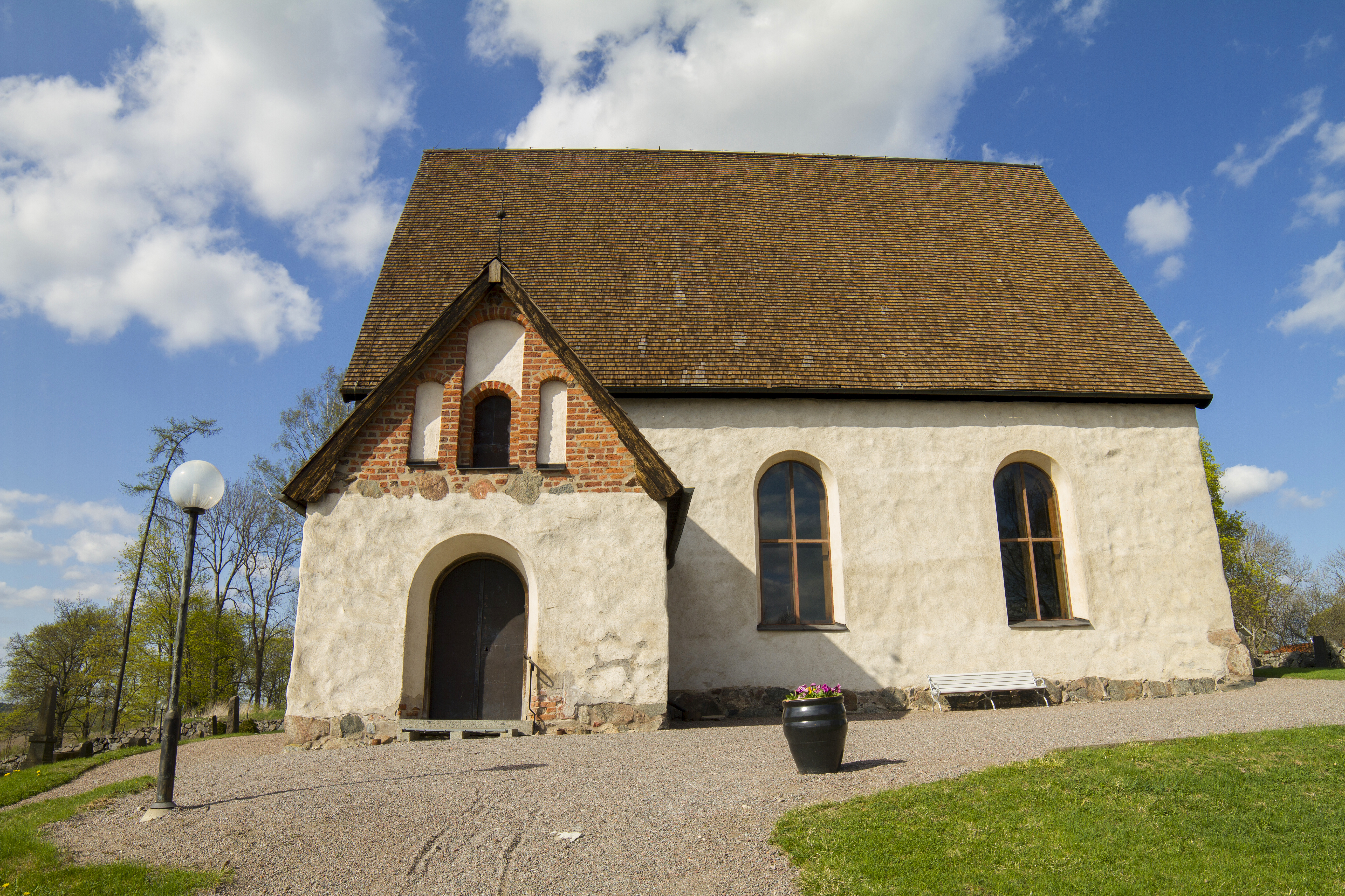 St Stefan Church in Knivsta north of Stockholm